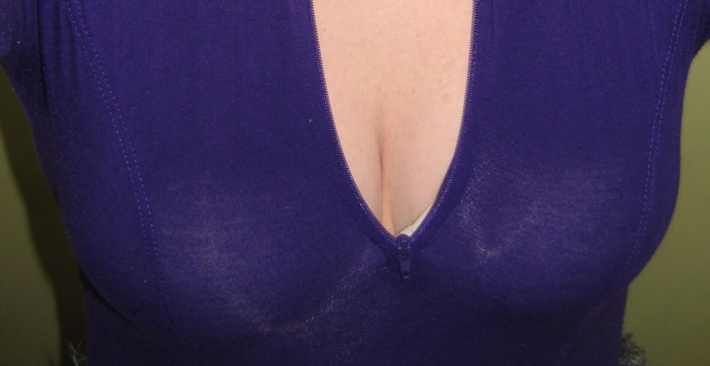 A self portrait of a crossdresser's cleavage with a deep V neckline.